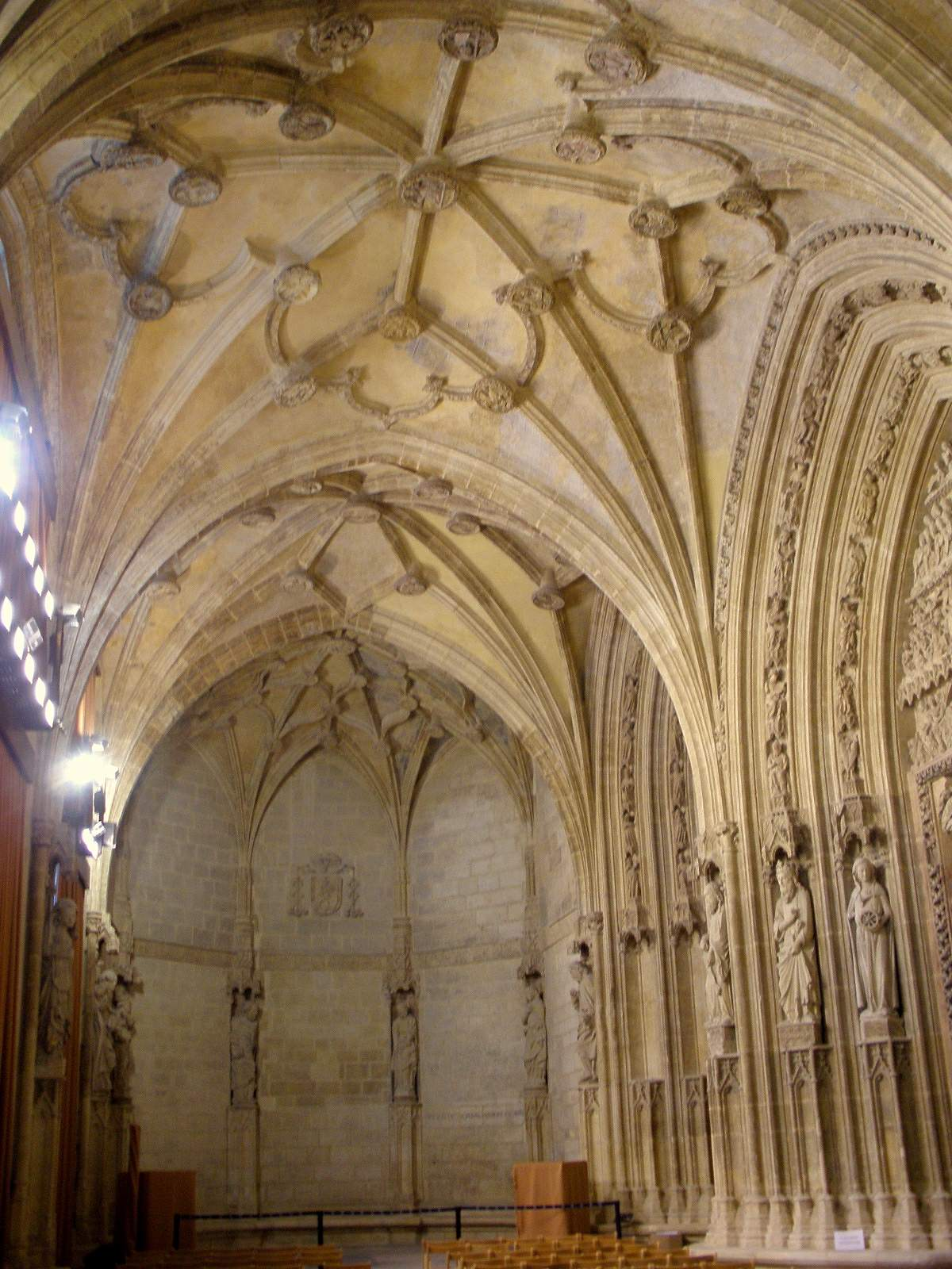 Pórtico de la Catedral de Santa María (Catedral Vieja) de Vitoria-Gasteiz